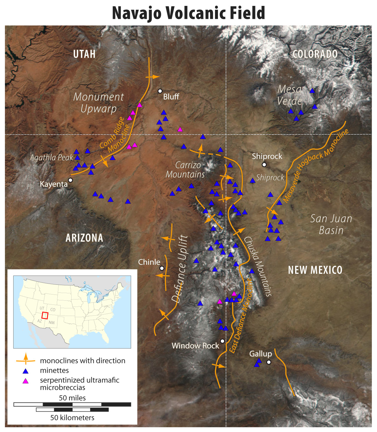 Map of the Navajo Volcanic Field Explanation: monoclines with direction minettes serpentinized ultramafic microbreccias